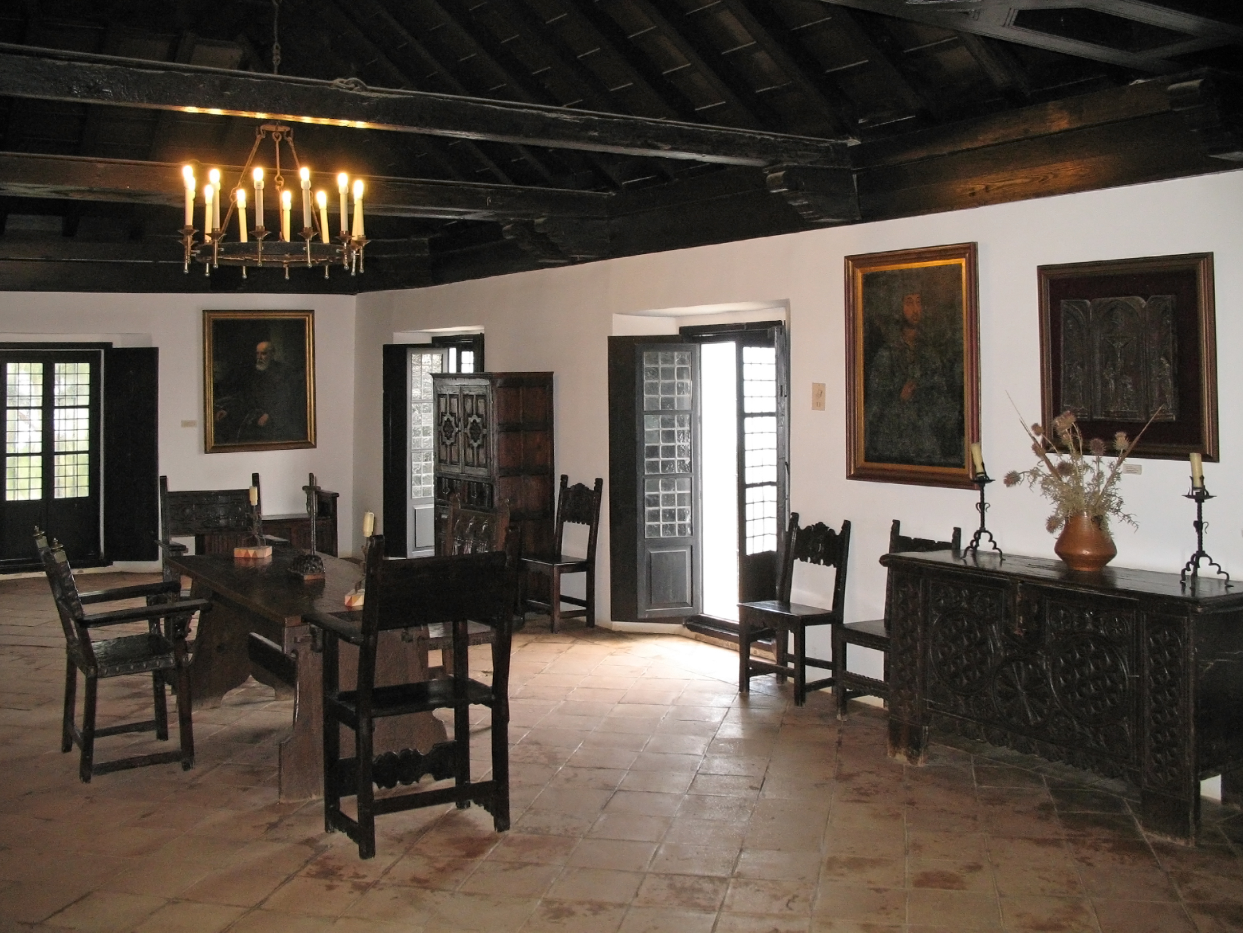 Palos de la Frontera (Huelva, Spain): monastery of Santa María de la Rábida - chapter room